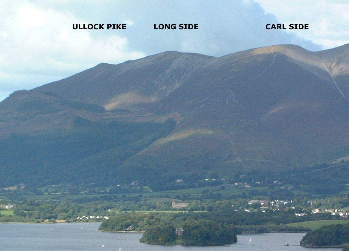 Personal picture taken by Mick Knapton